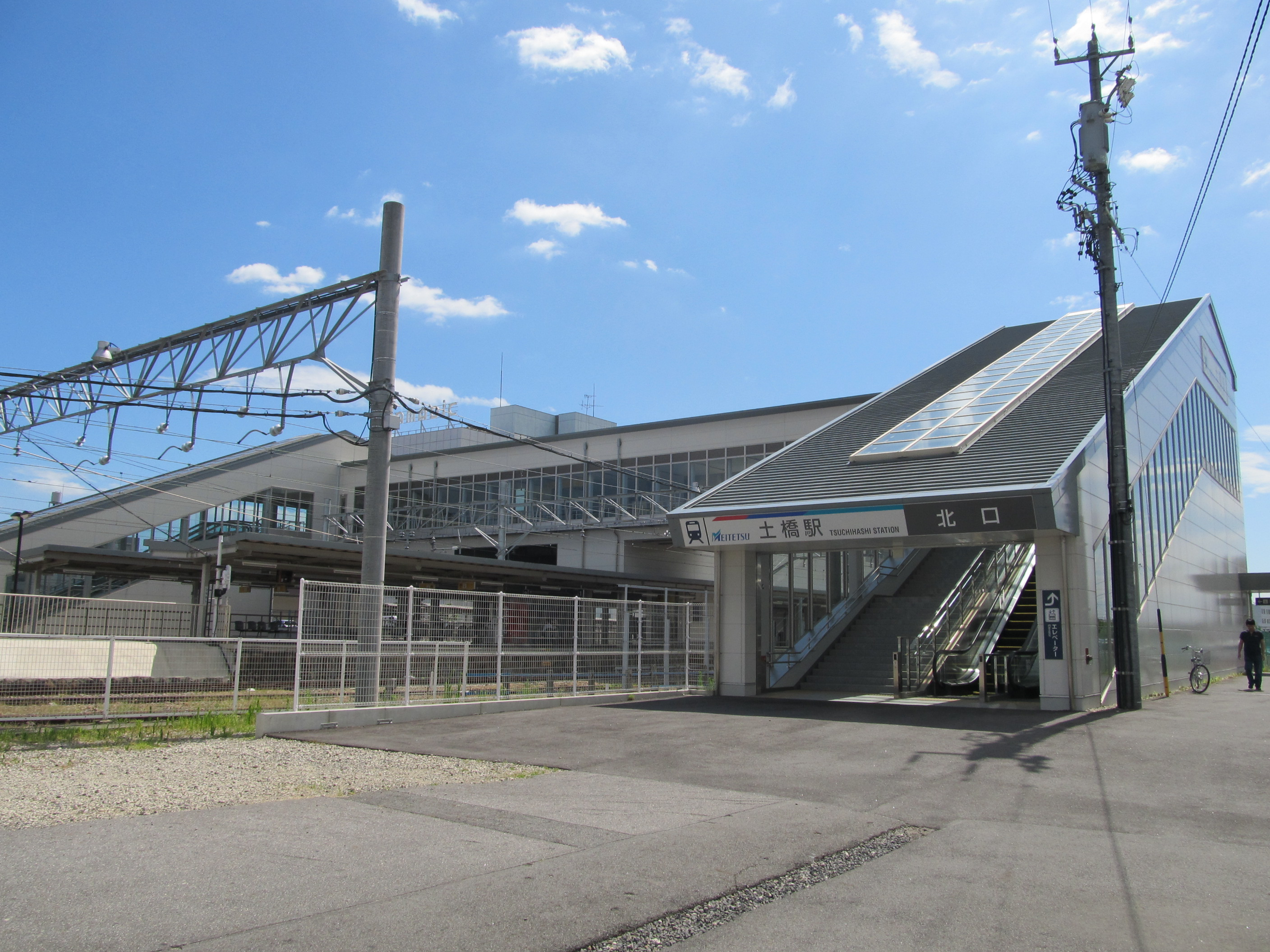 Nagoya Railroad Mikawa Line Tsuchihashi Station North Gate